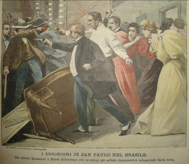 Representation of the attack of Brazilian in São José Theatre during the presentation of the Italian Theatre Company Emanuel e Rossi in August 1896.